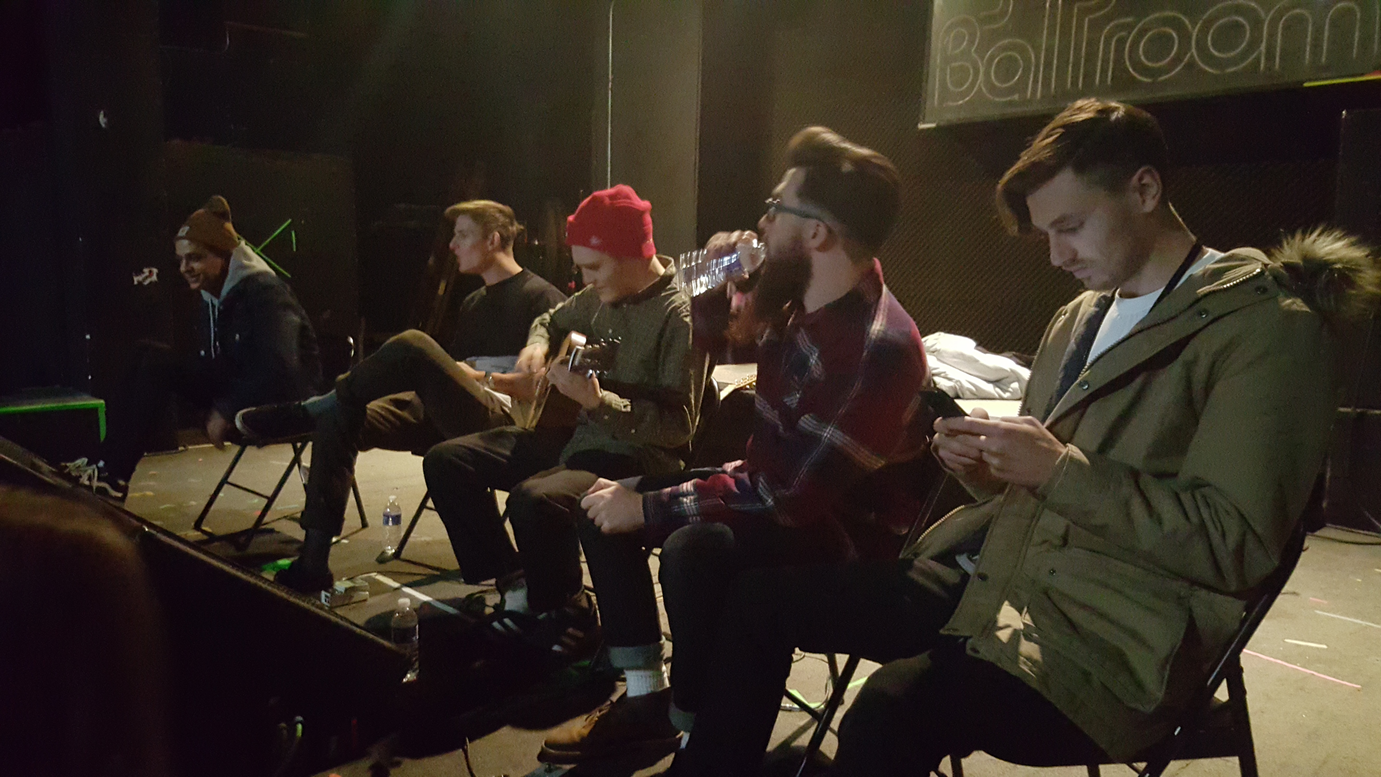 Neck Deep playing a VIP acoustic set in Cleveland, Ohio